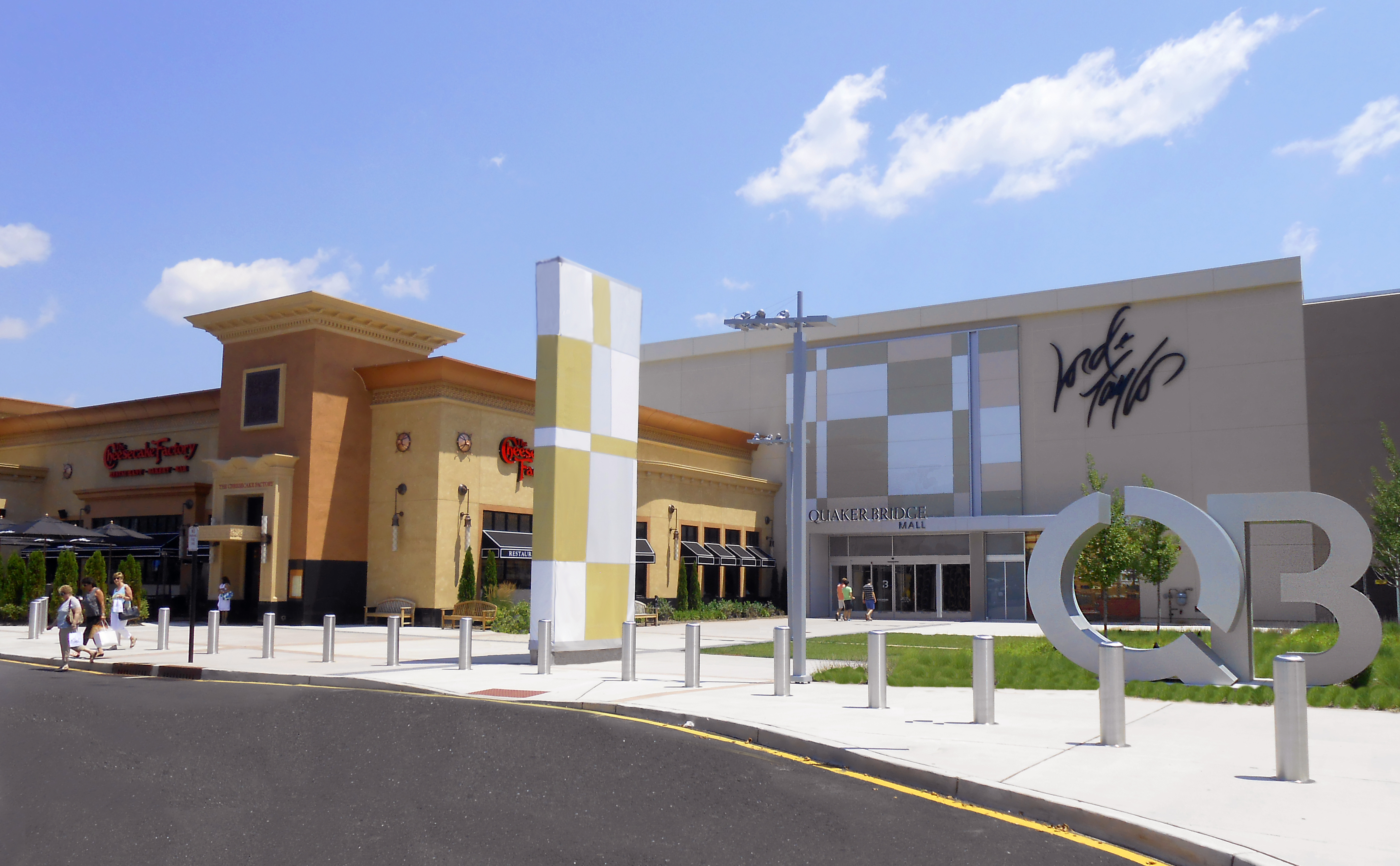 Quaker Bridge Mall Lawrenceville, NJ